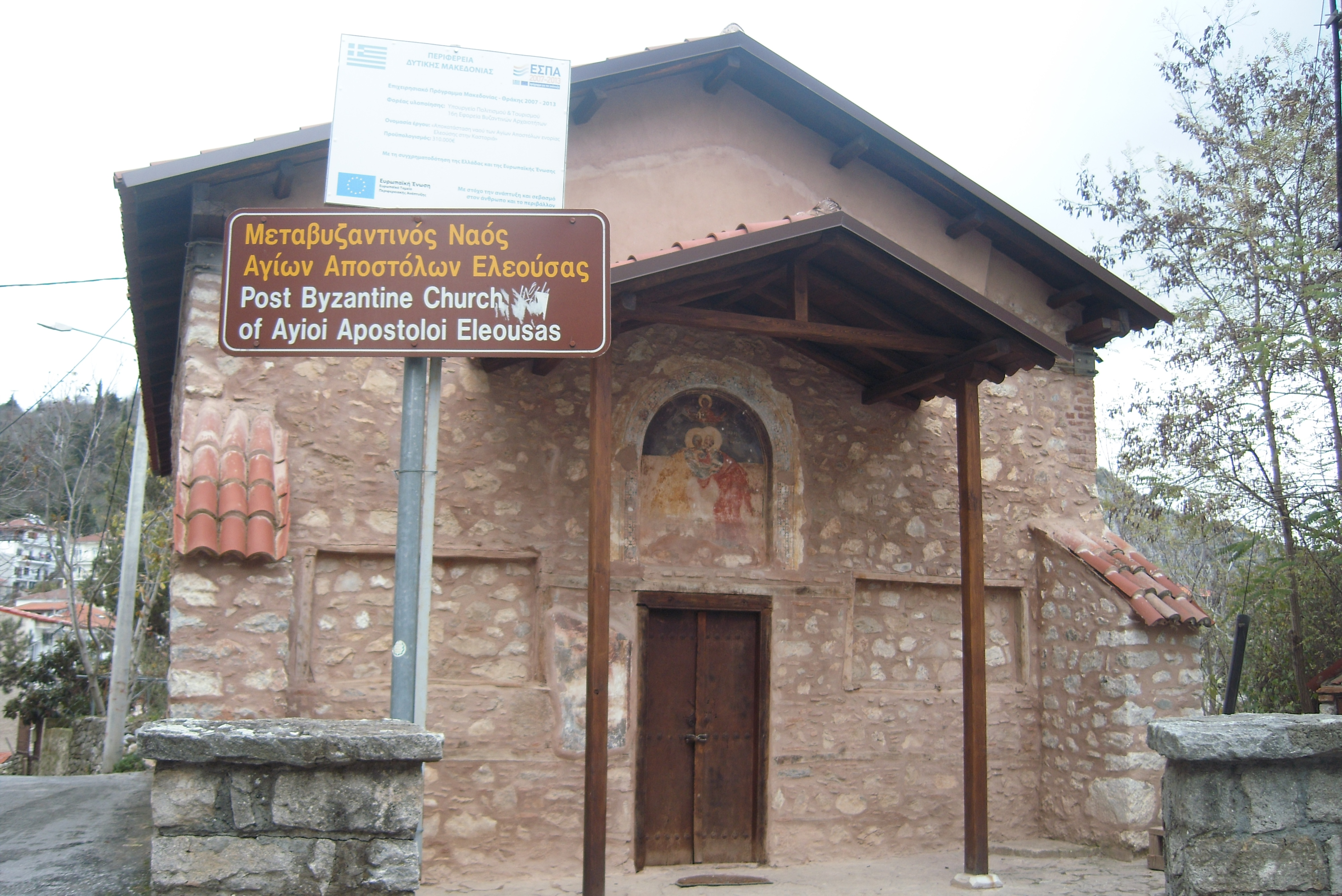 Agii Apostoli Eleousas church in Kastoria